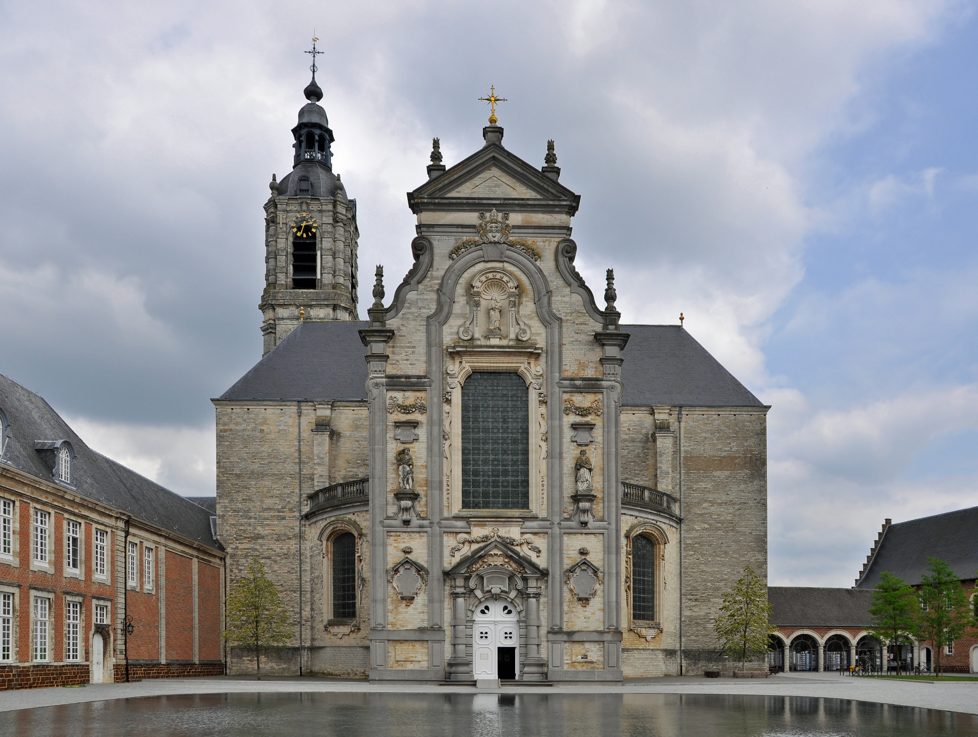 Averbode (Belgium): abbey church